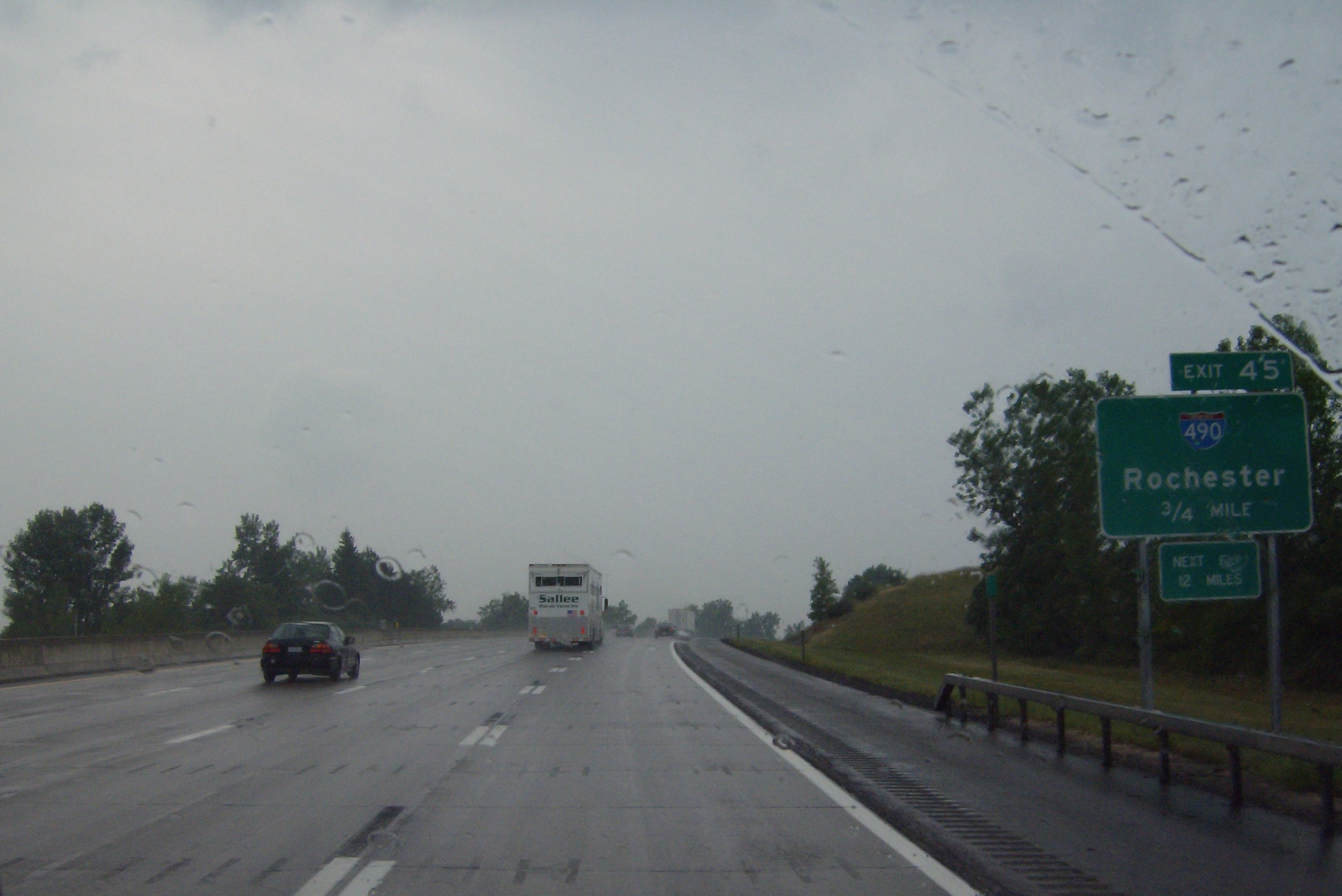 Approaching exit 45 (I-490) on the New York State Thruway.